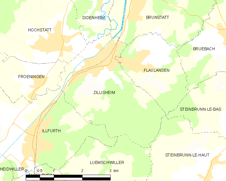 Map of French municipality